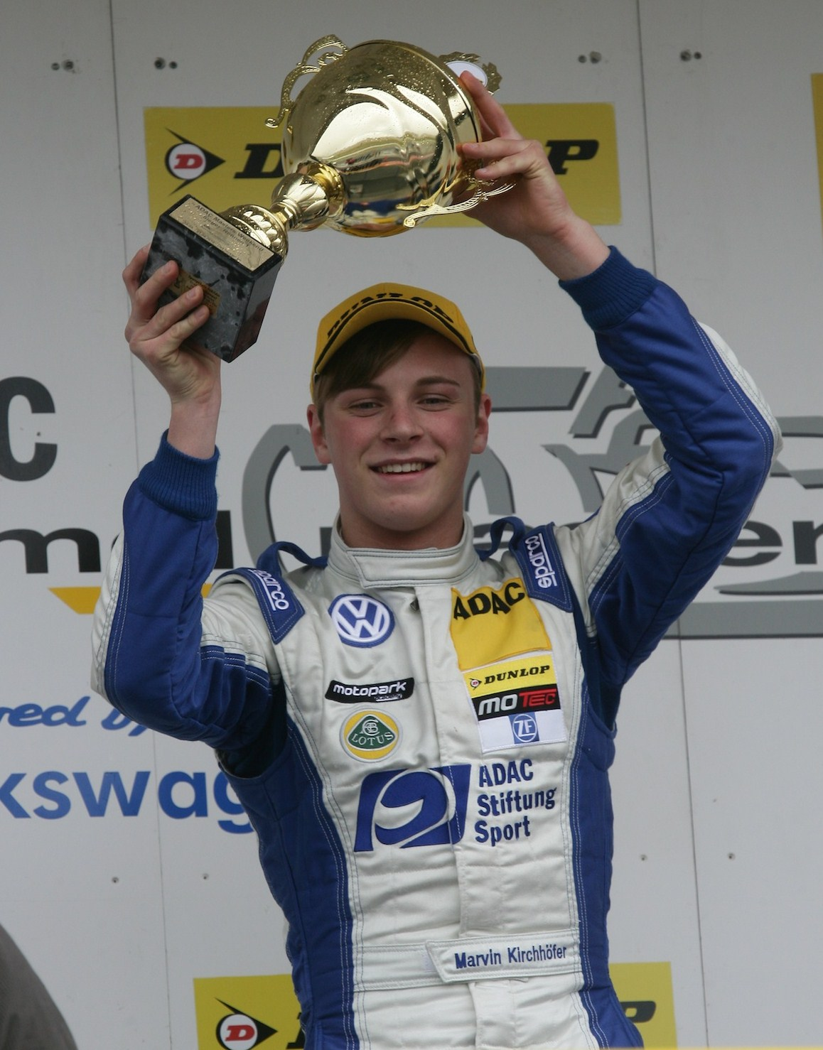 Marvin Kirchhöfer after his victory at the ADAC Formel Masters 2012 in Oschersleben.